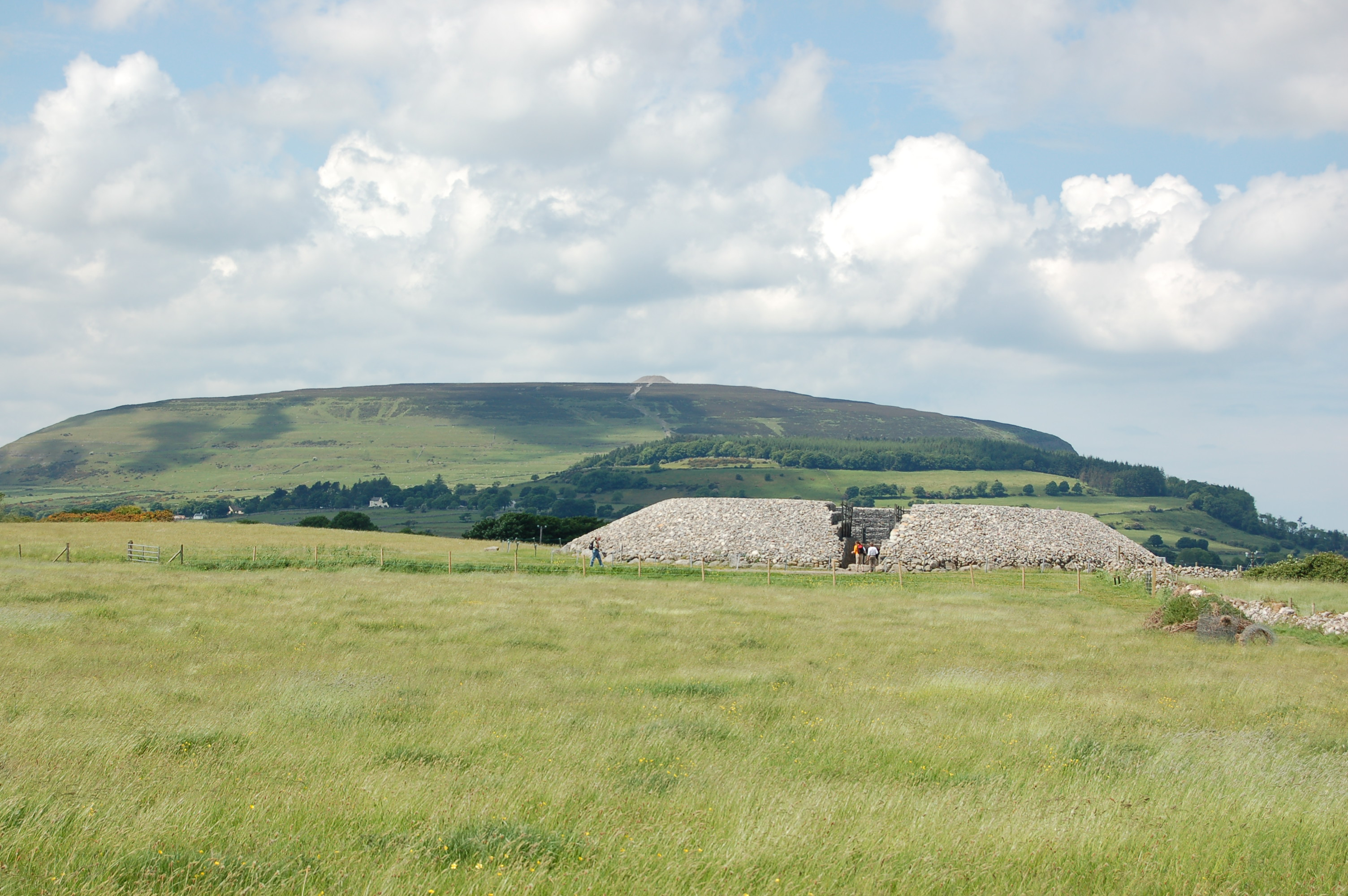 Listoghil, megalithic tomb (No.52, Listoghil) in Carrowmore, County Sligo in Ireland